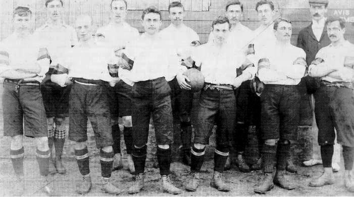 Very first Belgian national football team on april 28, 1901 in Antwerp (Belgium-Netherlands 8-0). This team played the first unofficial game for Belgium. This game was unofficial because some foreign players were accepted in both teams. Back row from left to right: Harry Menzies (Football Club Liégeois), Georges Simon (Athletic & Running Club Brussels), Fernand Defalle (goalkeeper - Football Club Liégeois), Hughes Ryan (Léopold Club Bruxelles), Gustave Pelgrims (Léopold Club Bruxelles), Charles Maggee (referee - Beerschot) Front row from left to right: Herbert Potts, (Beerschot Athletic Club), Jan Robyns, (Beerschot Athletic Club), Ernest Gillion, (Athletic & Running Club Brussels), Albert Friling, (Beerschot Athletic Club), Lucien Londot, (Football Club Liégeois), Walter Potts, (Beerschot Athletic Club)